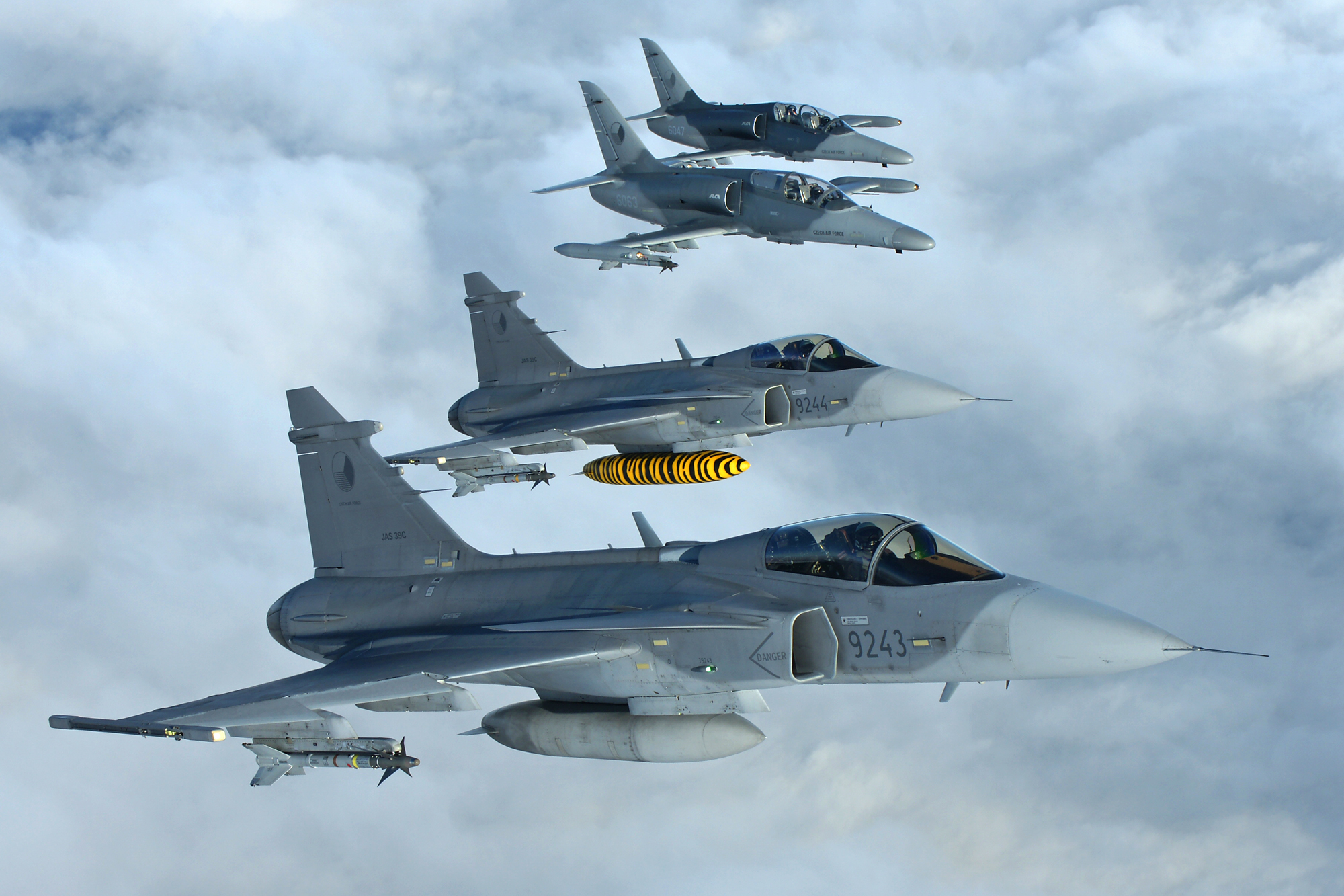 2 x Saab JAS-39 Gripen and 2 x Aero L-159 of the Czech Air Force, based at AFB Čáslav, inflight.